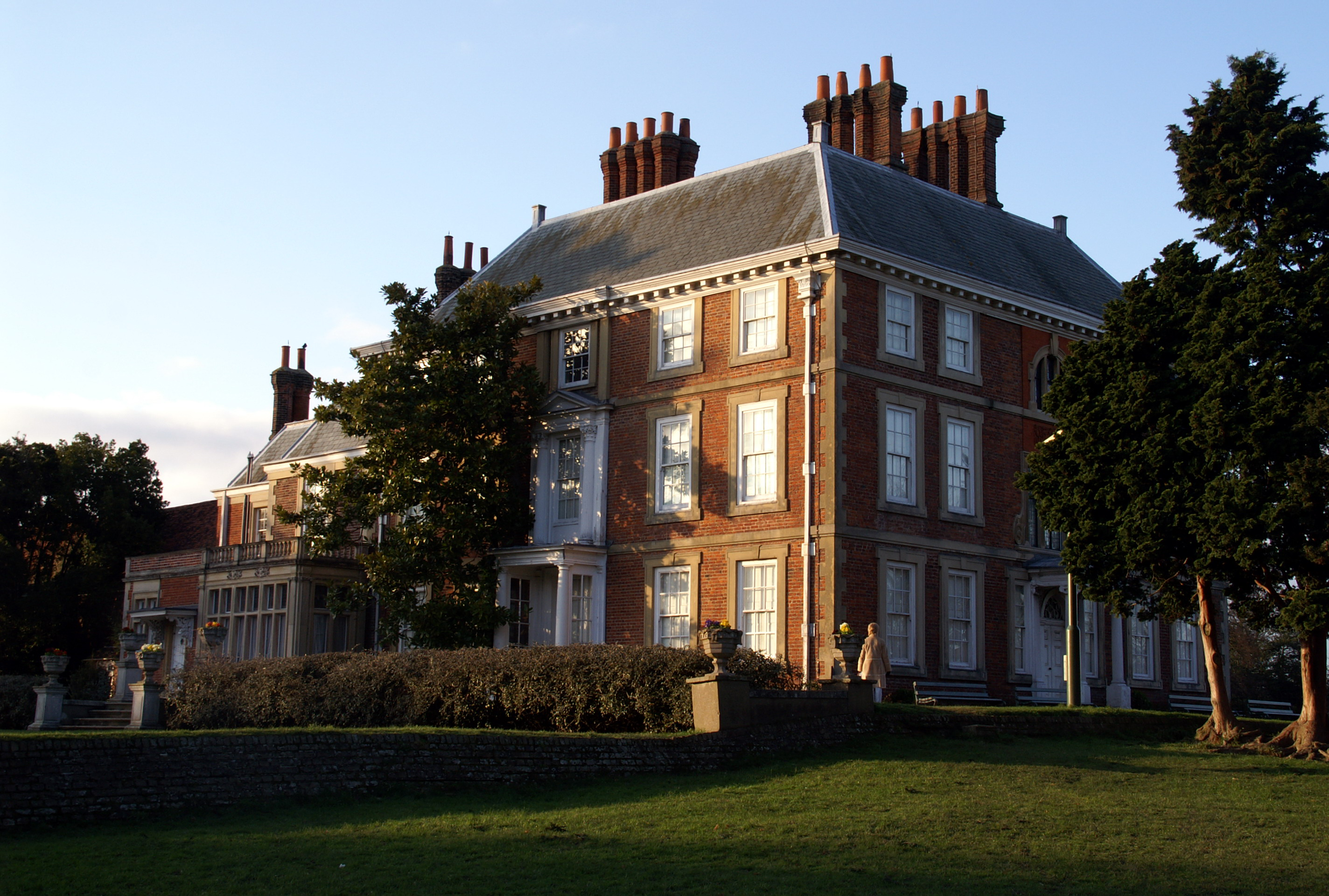 Forty Hall, Enfield, south-east aspect